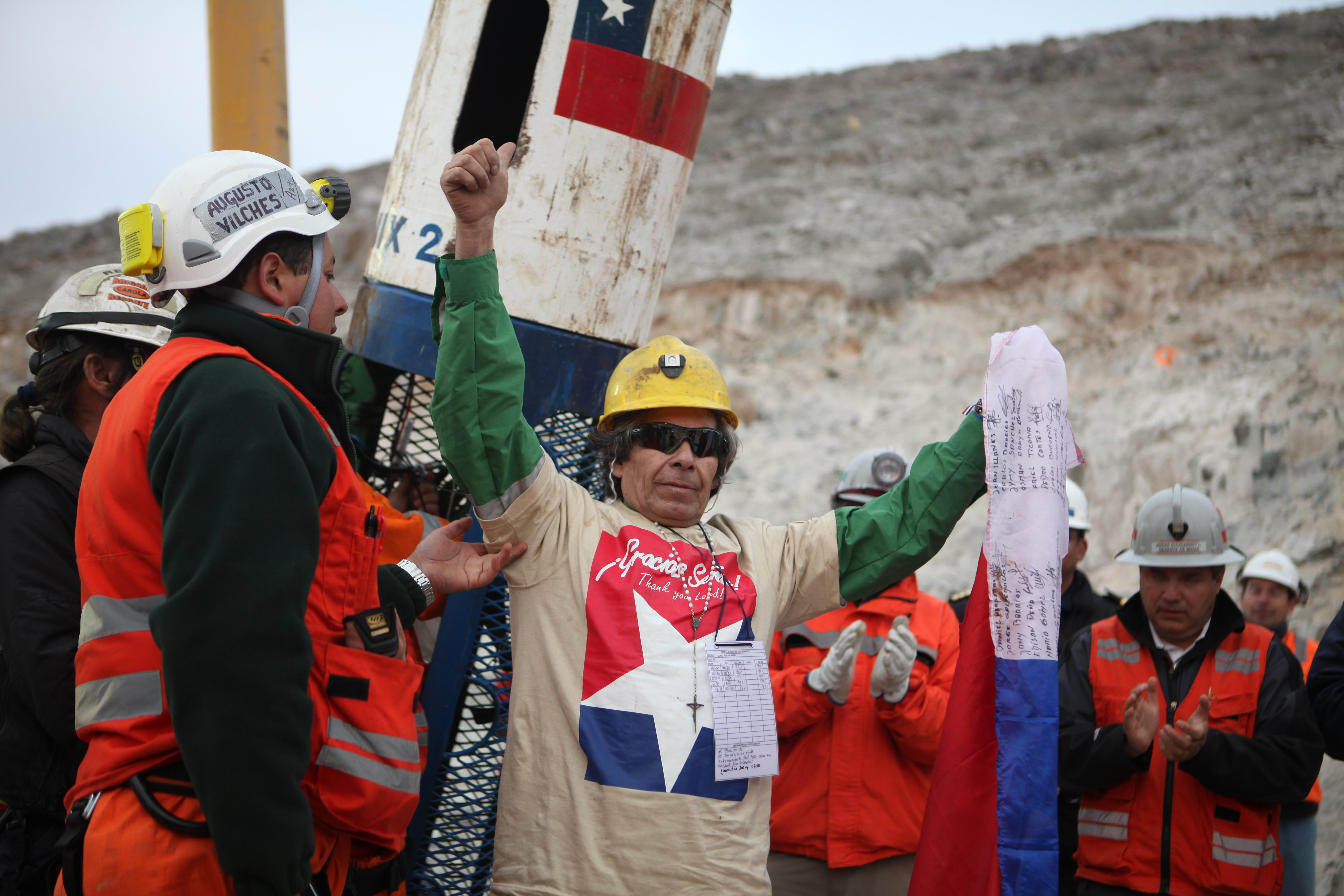 Mario Gómez, the eldest miner, was the ninth to be rescued from the San José Mine, during "Operación San Lorenzo".